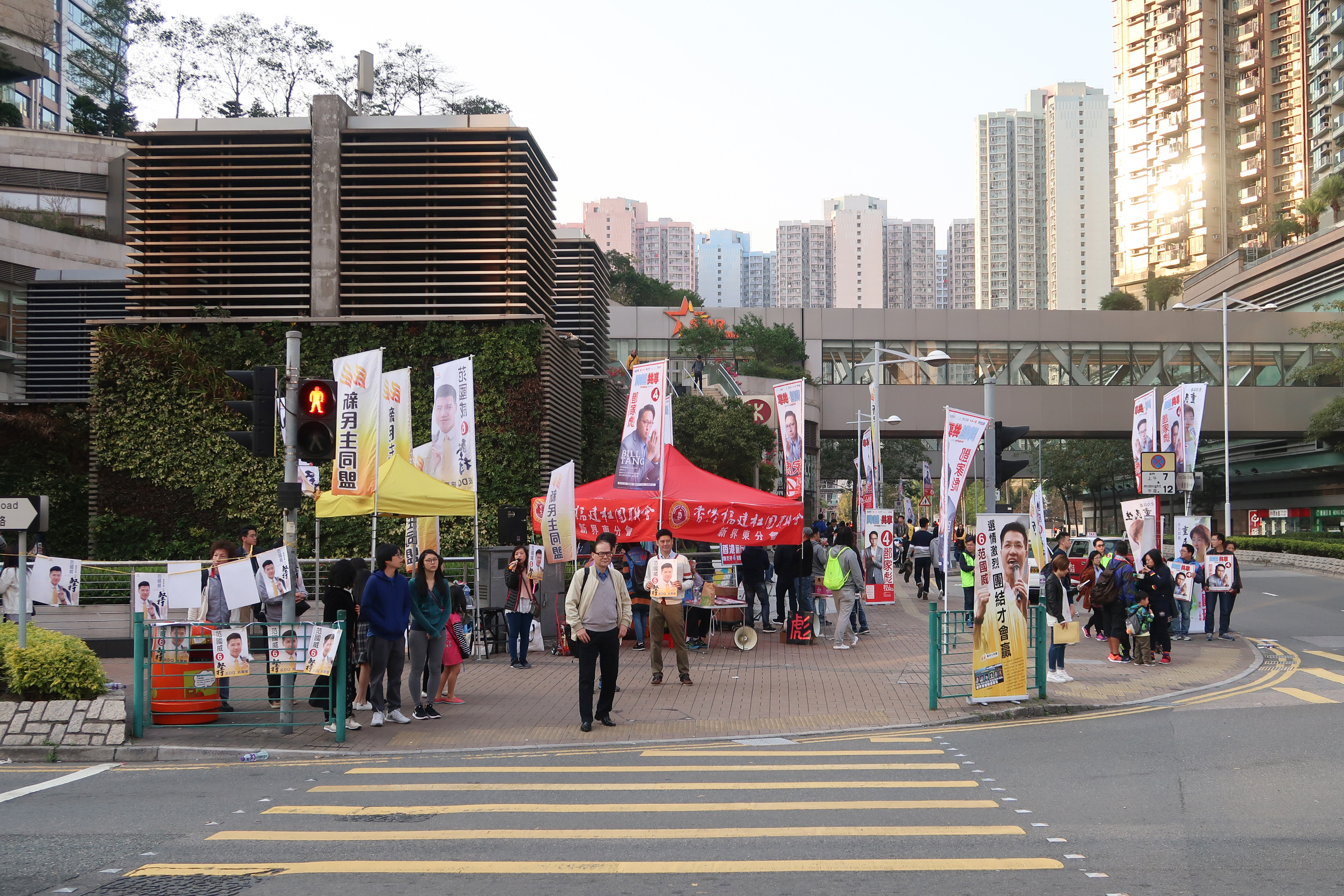 Hong Kong by-election 2018 Tseung Kwan O promotion